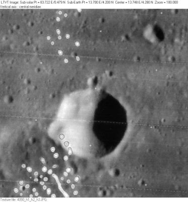 LO-IV-090H The 4-km crater in the upper right is Whewell A.